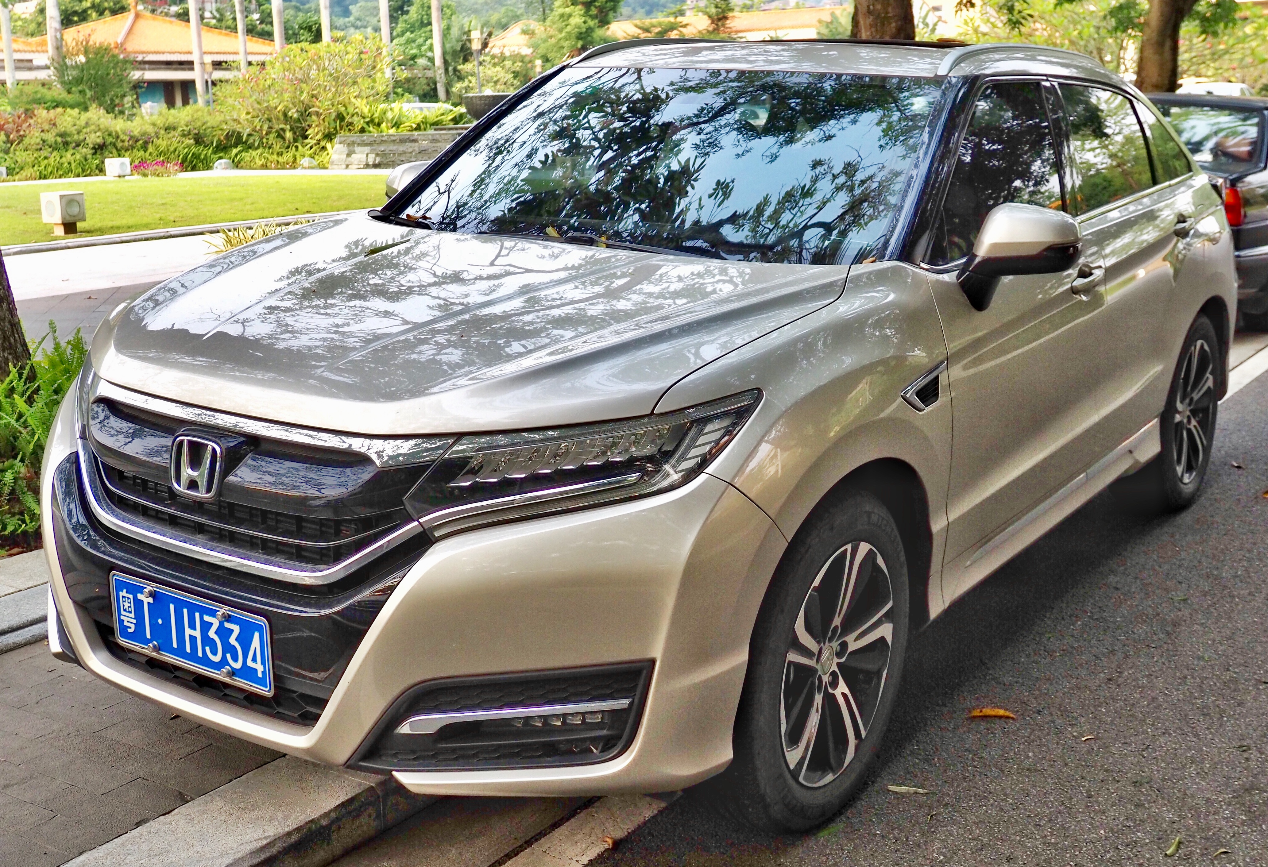 A 2017 Dongfeng-Honda UR-V photographed in Zhongshan, Guangdong province, China. 中文（中国大陆）: 一辆2017年的东风本田UR-V，拍摄于中国广东省中山市。